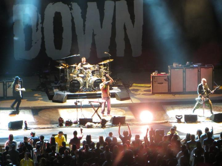 A shot of System of a Down playing at the Nikon at Jones Beach Theater in Wantagh, New York.